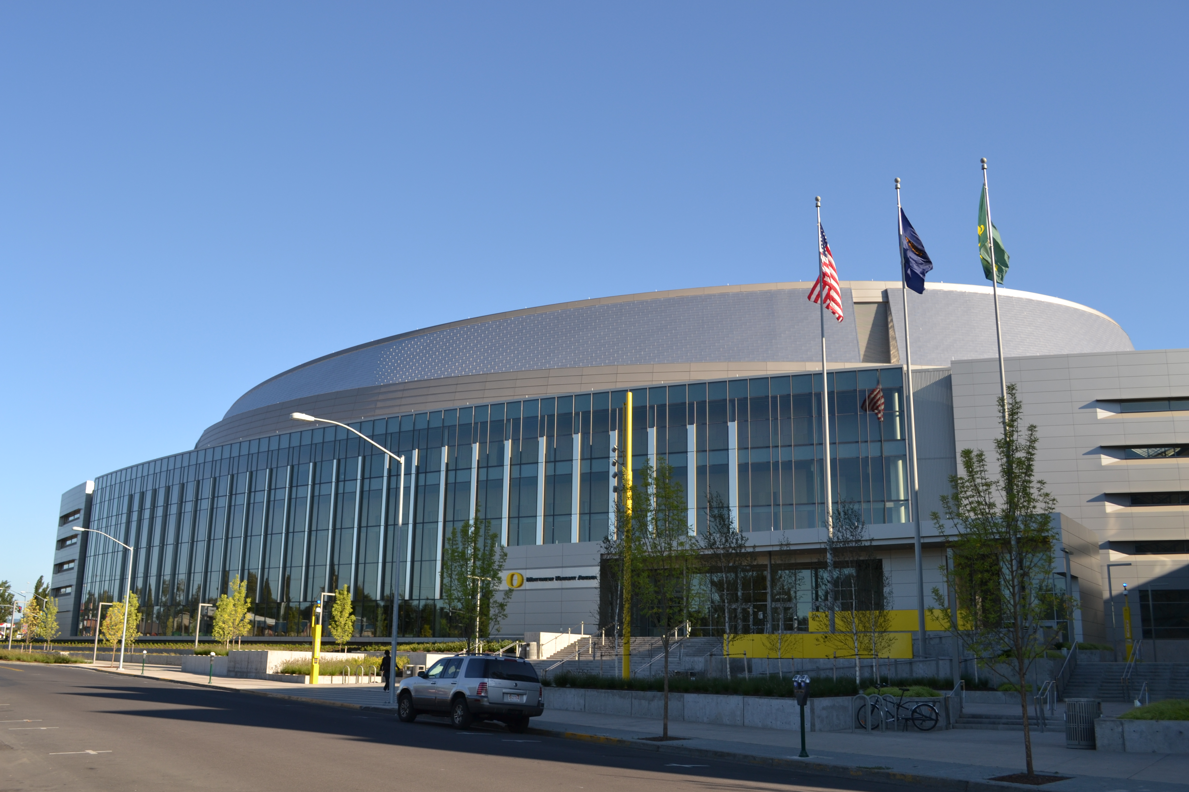 Matt Knight Arena (Eugene, Oregon)